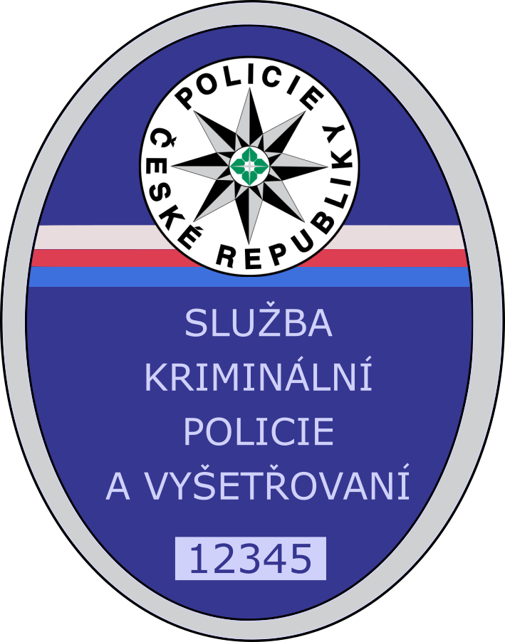 Badge and seal of Service of the Criminal Police and Investigation (SKPV) of Police of Czech Republic between years 2002 and 2015.